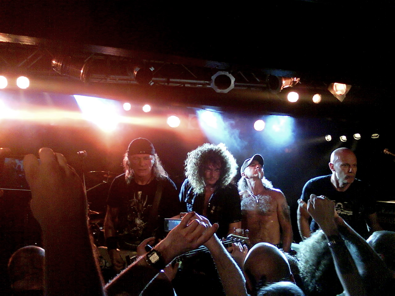 Picture of Accept performing in Stockholm, at Debaser Slussen.